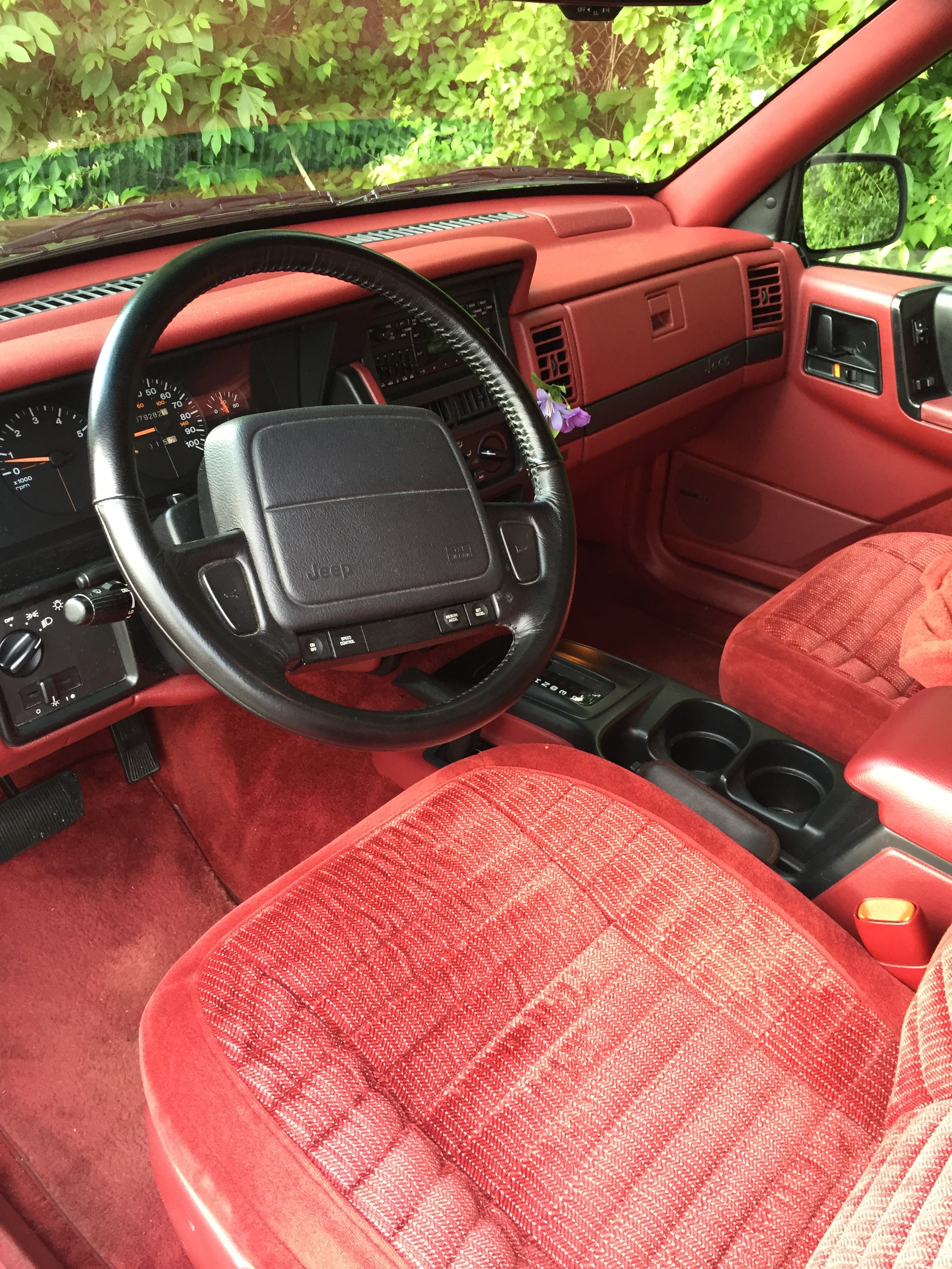 1993 Jeep Grand Cherokee, a luxurious sport utility (SUV) finished in Metallic Blackberry (paint code: PM9), a deep burgundy. Equipment includes the Laredo 26F package and the Quadra-Trac full-time all-wheel drive. This is an early production ZJ model that was built in April 1992. The interior is in matching Crimson with cloth upholstery, that was only available at the start of the ZJ's production. The Laredo 26F package included standard Goodyear Invicta GL radial street tires from the factory. They have been replaced with Michelin X radial LTs.